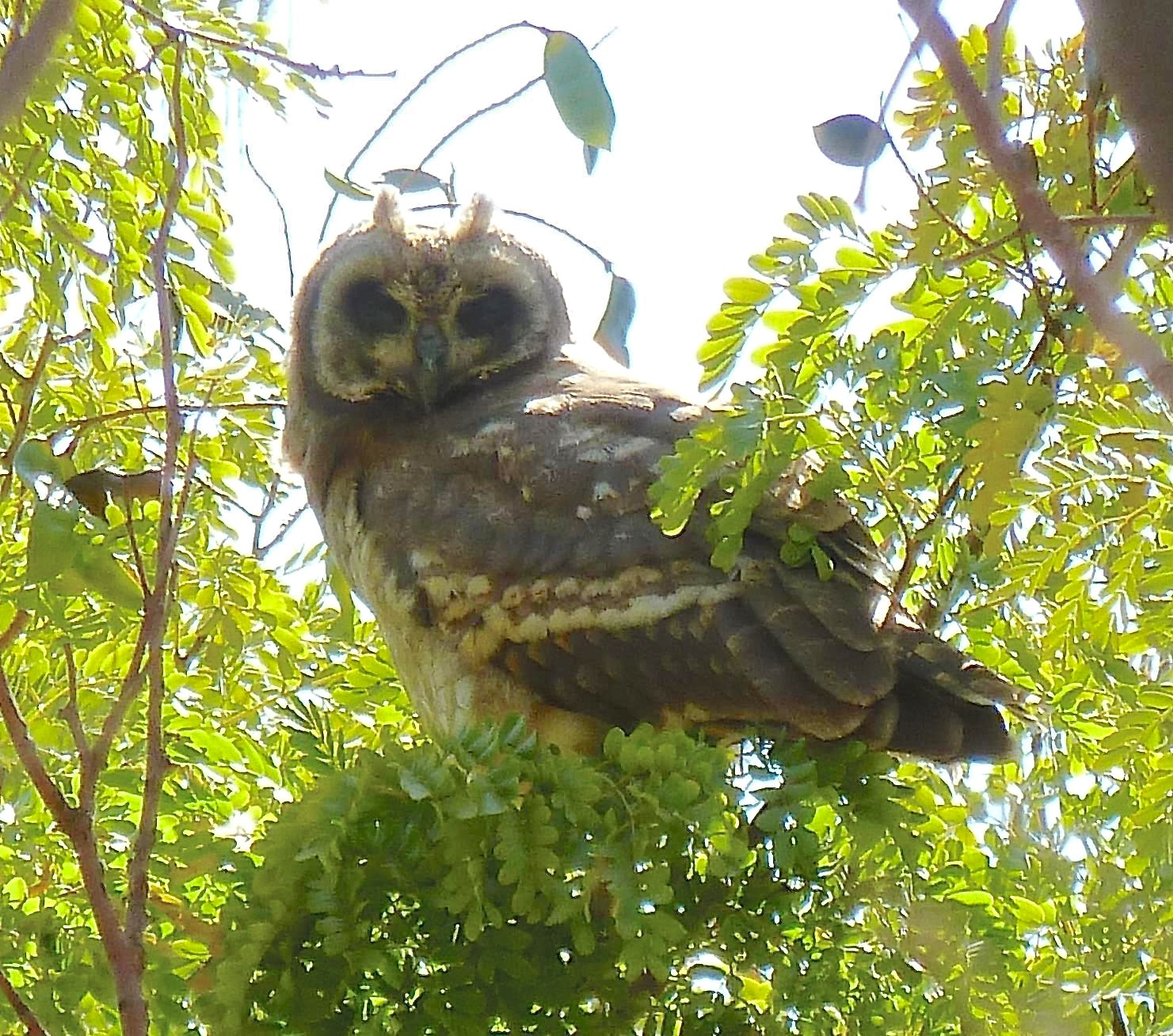 A Marsh owl in suburban Pretoria, in an atypical roost atop a Brazilian ironwood, Libidibia ferrea, rather than the usual grassy meadow.